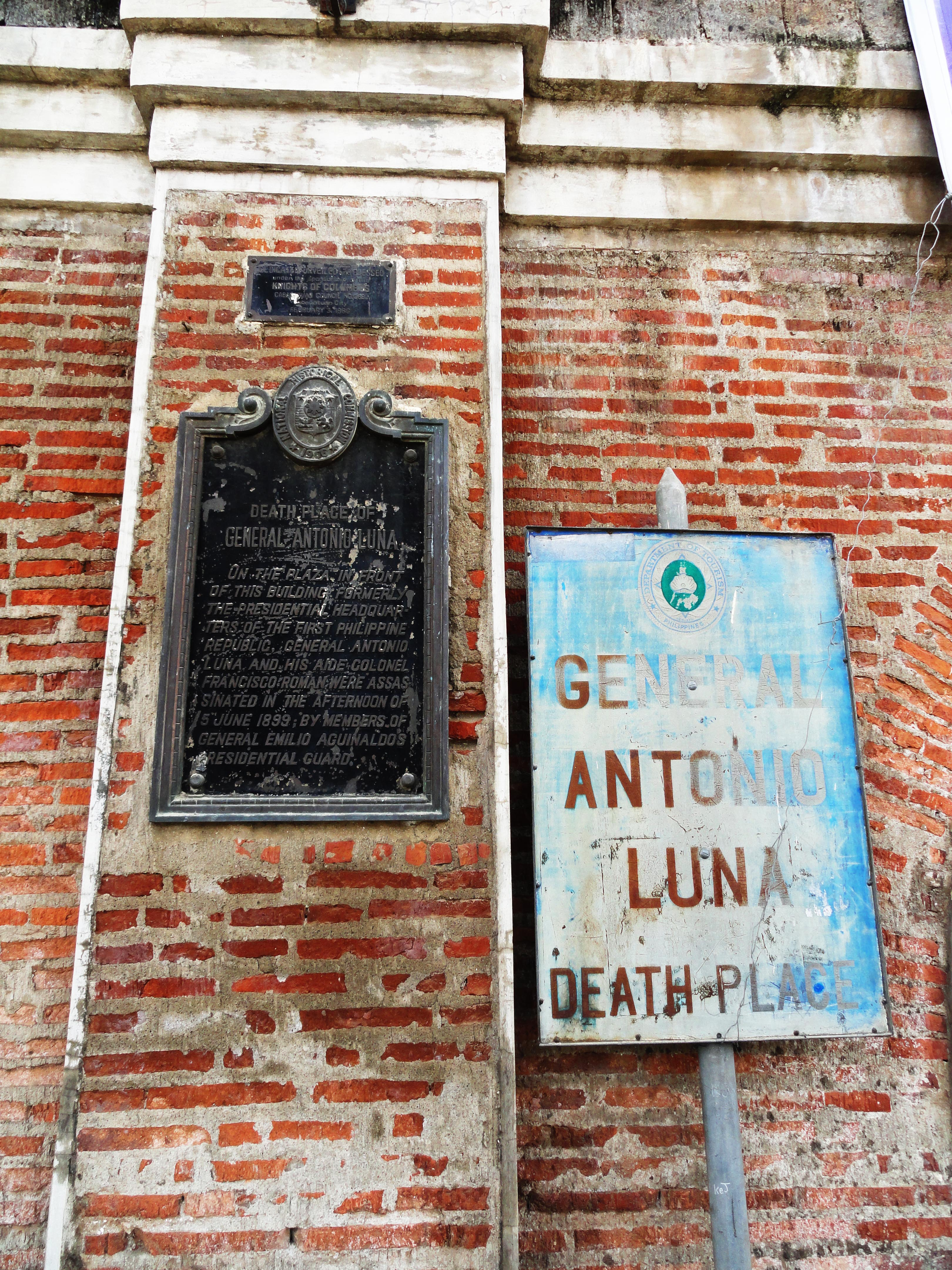 Gen Luna Death Site